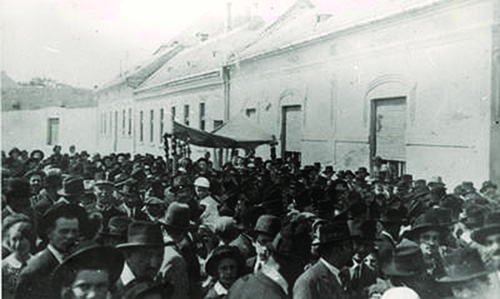 The Pupa 1934 Hachnassas Sefer Torah took place on Shabbos and was photographed by a non-Jew.